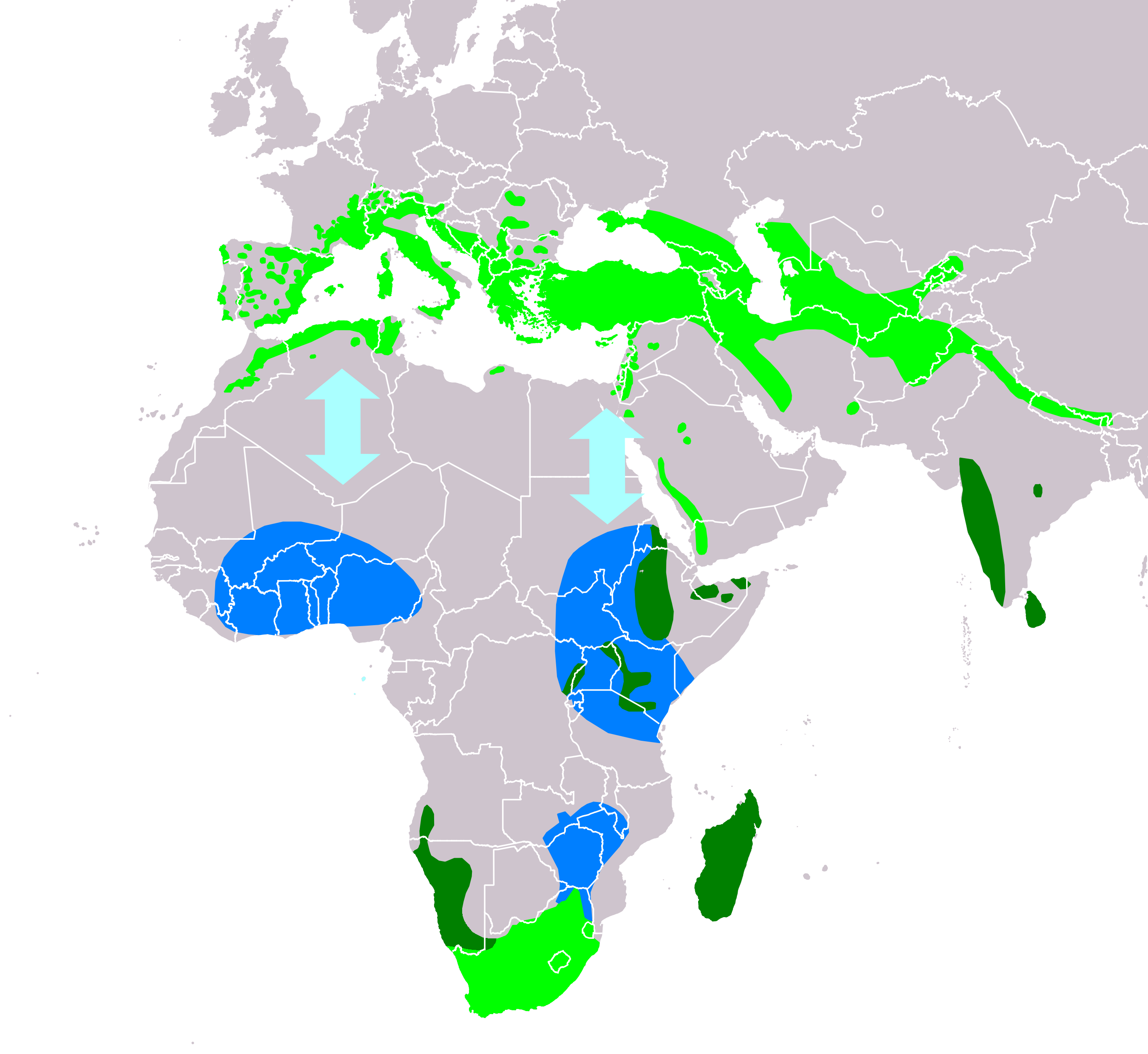 Map of alpine swift (Tachymarptis melba) according to IUCN version 2018.2 , Legend: Extant, breeding (#00FF00), Extant, resident (#008000), Extant, non-breeding (#007FFF), Extant & Vagrant (seasonality uncertain) (#FF00FF), Possibly Extant (passage) (#AAFFFF)